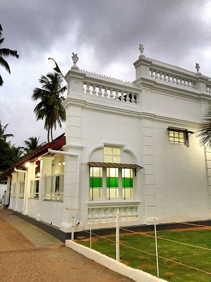 Udayar Thoppuwa Mosque in Dheen Junction, Negombo, Sri Lanka.